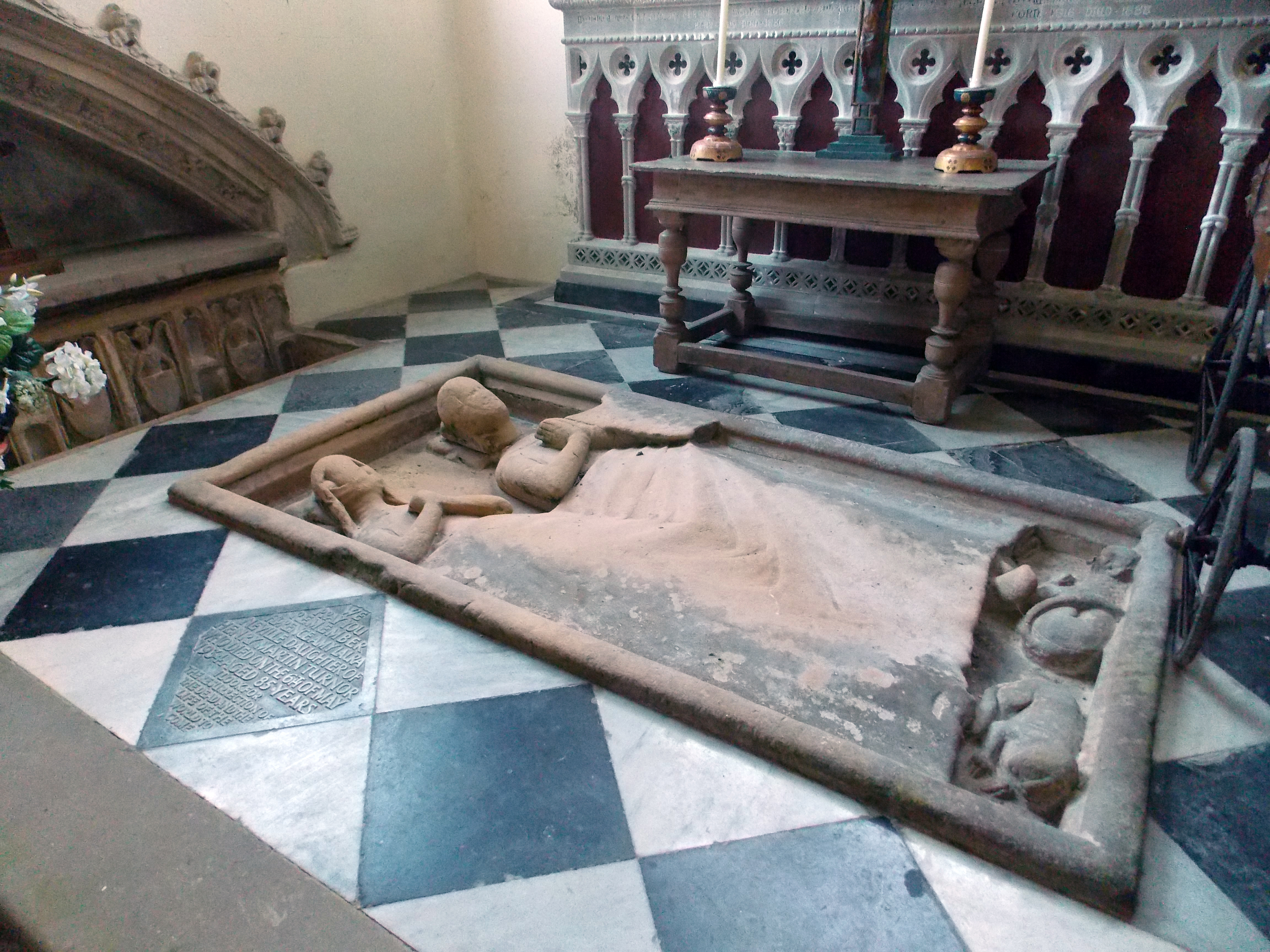 Stoke Rochford Ss Mary & Andrew, interior - north chapel floor slab to John & Elizabeth de Neville, with Christopher Turnor reredos behind, table tomb and canopy of unknown origin to the left, and the plaque to Florence Neville in front